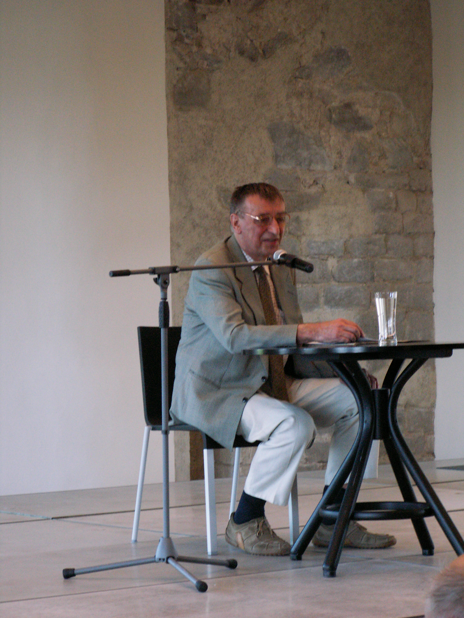 Czech historian Dušan Třeštík (1933-2007) giving a lecture on the Přemyslid dynasty in the Archdiocesan Museum in Olomouc on 15 June 2006.